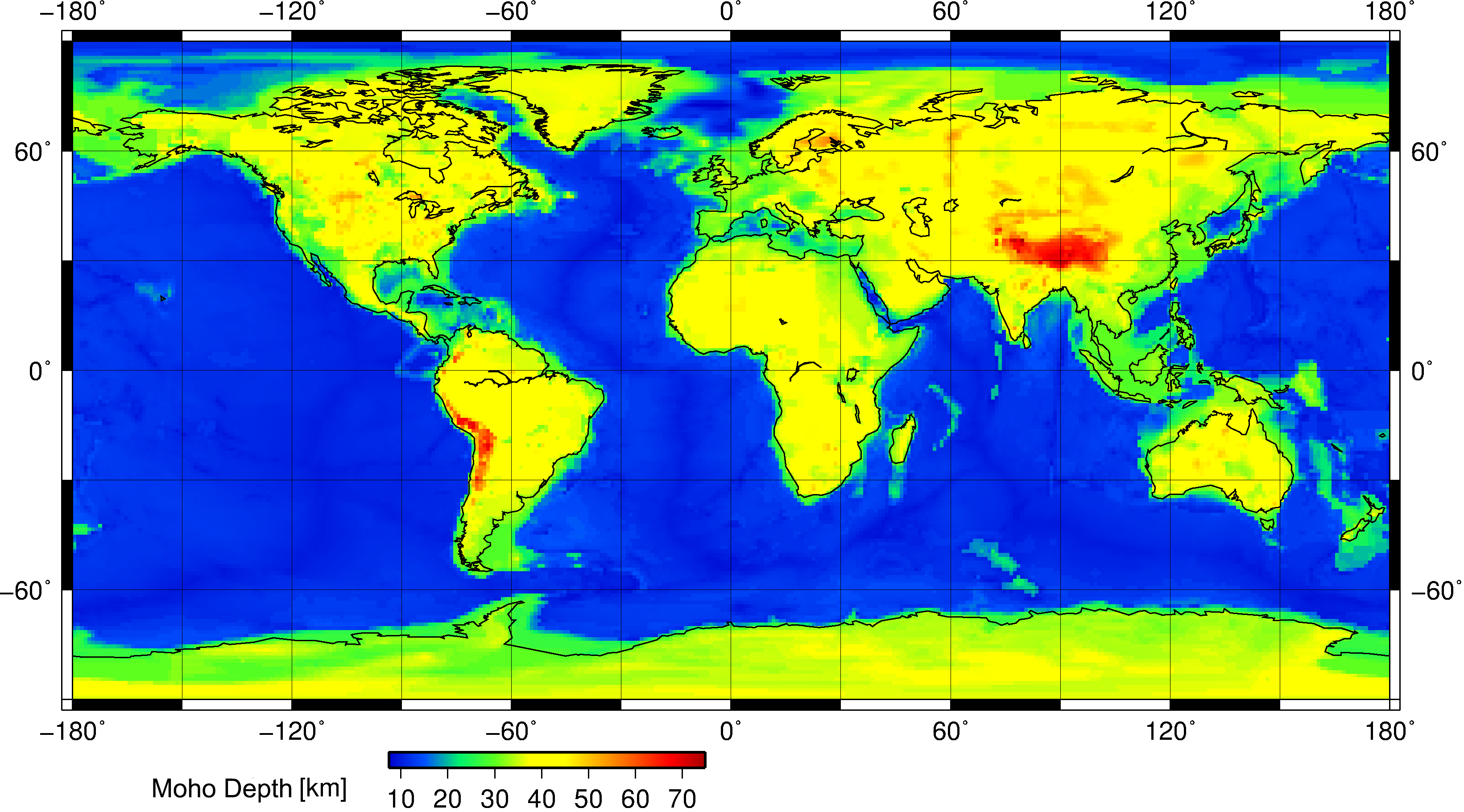 This is a geophysical map showing the position of the Moho discontinuity across the Earth. The Moho is the boundary between the Earth's crust and the mantle. Search "Mohorovičić discontinuity" for more information. This map was constructed using the Crust 1.0 model and Generic Mapping Tools (GMT) for Linux. It was done at the Christian-Albrechts University of Kiel, Germany.